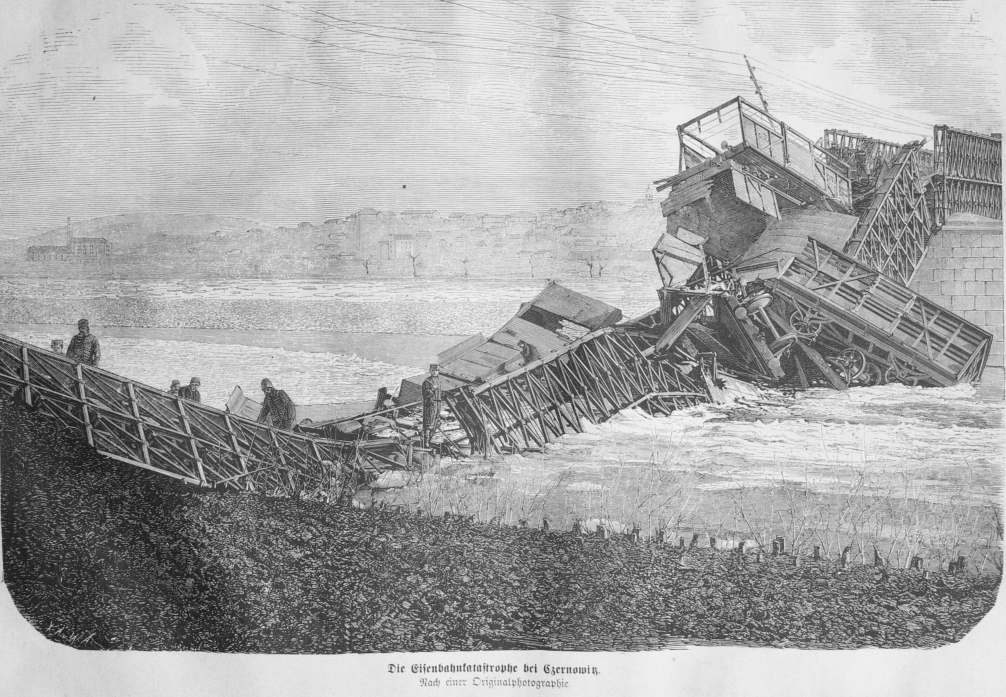 caption: "Die Eisenbahnkatastrophe bei Czernowitz.Nach einer Originalphotographie."